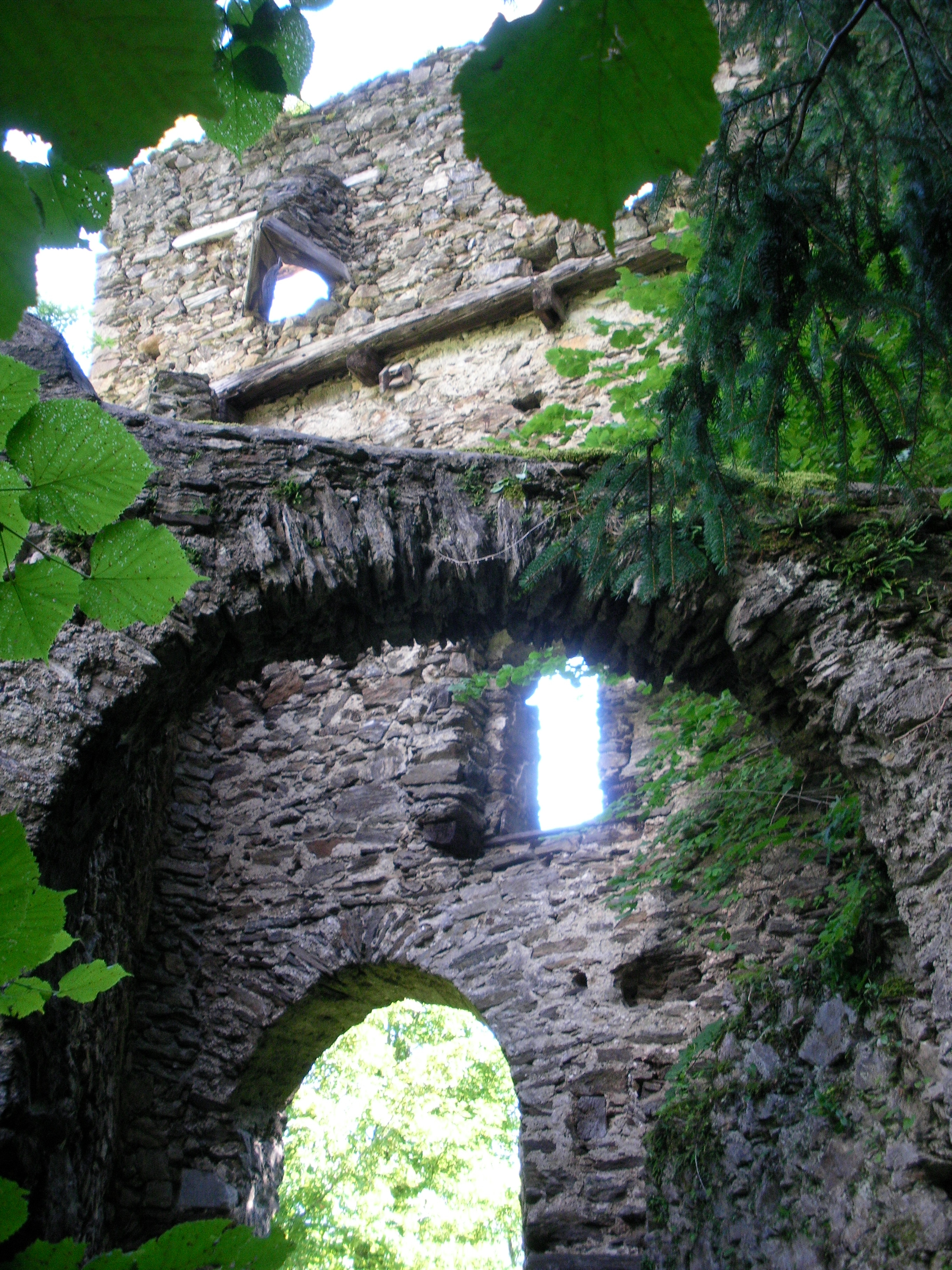 Castle ruin Frauenburg festival Unzmarkt-Frauenburg.